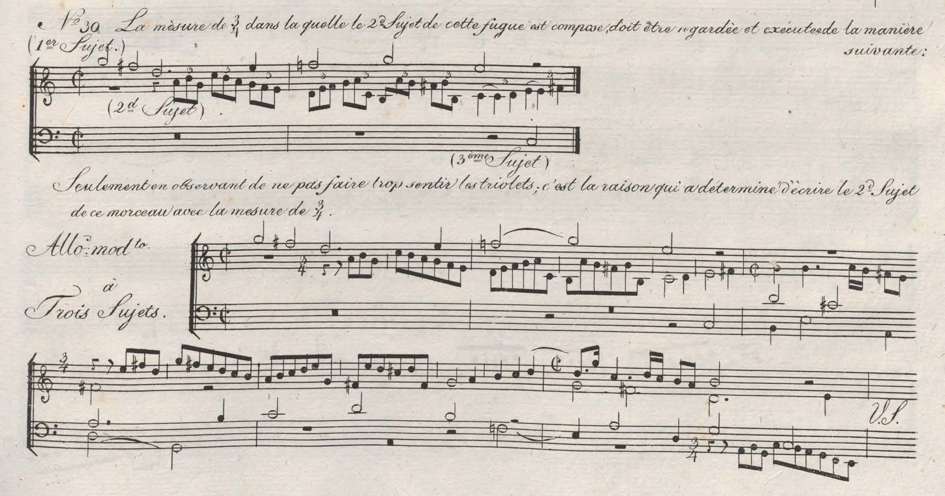 Opening bars of Anton Reicha's Fugue No. 30 from "36 Fugues" (1803). Facsimile of the second edition (1805).